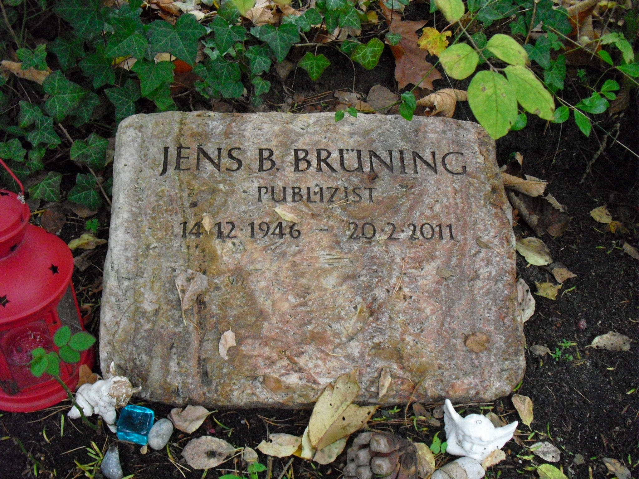 Grave of German journalist Jens B. Brüning in Friedhof Heerstraße in Berlin-Westend